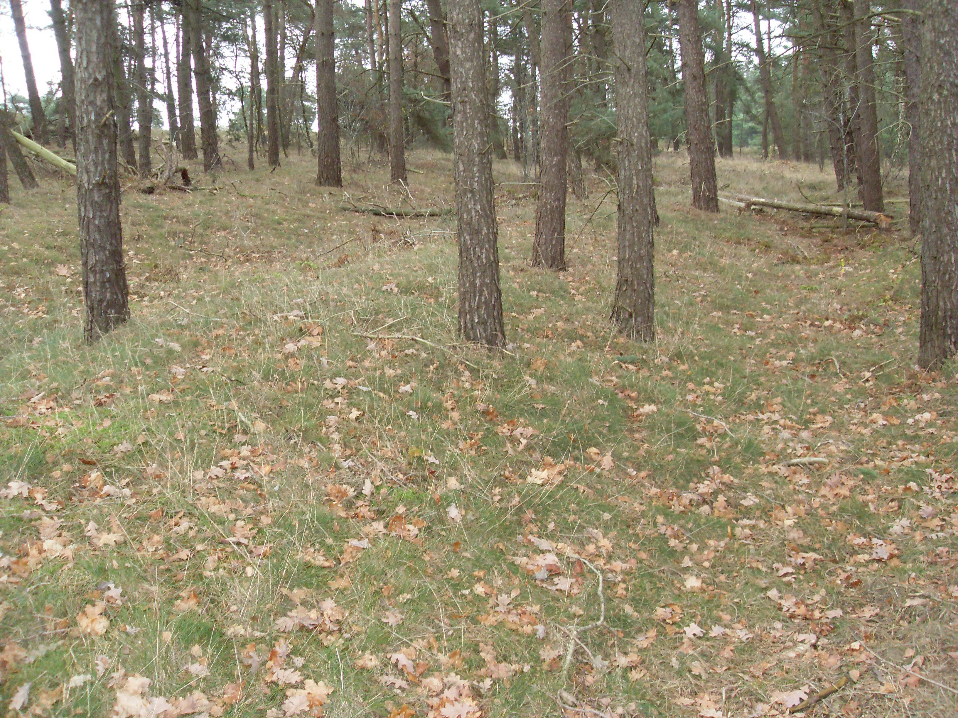 Nature reserve Hügelgräberheide close to Kirchlinteln, Verden, Lower Saxony, Germany